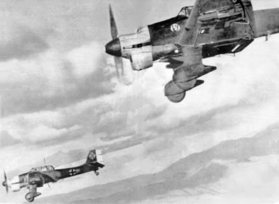 Two German Junkers Ju 87B Stuka dive bombers. Due to the yellow noses and rudders, this photo was probably taken during the 1941 Balkans campaign.